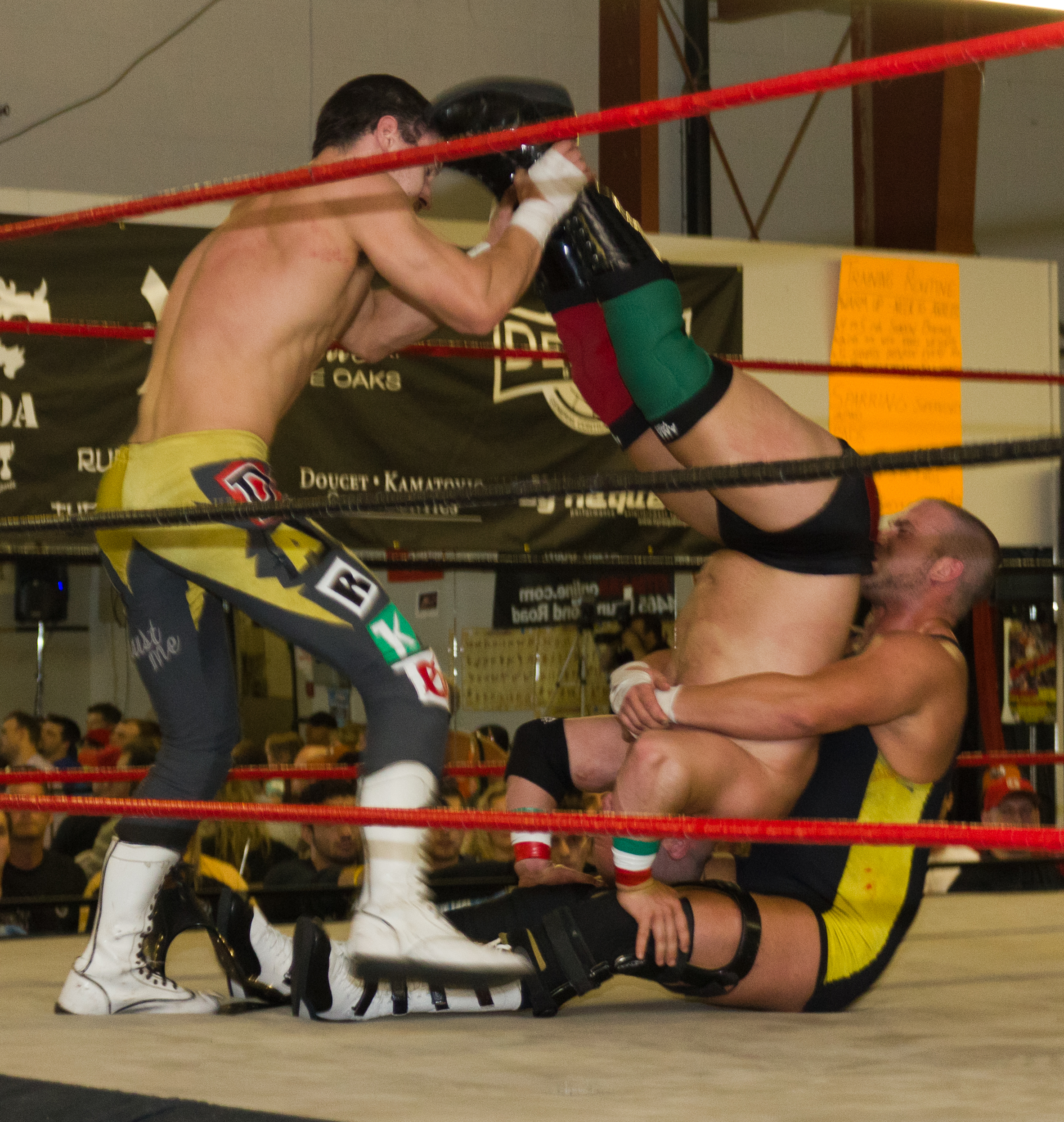 Anthony Darko (standing) and Jake O'Reilly (in black/gold singlet) execute a spike piledriver on Primo Scordino